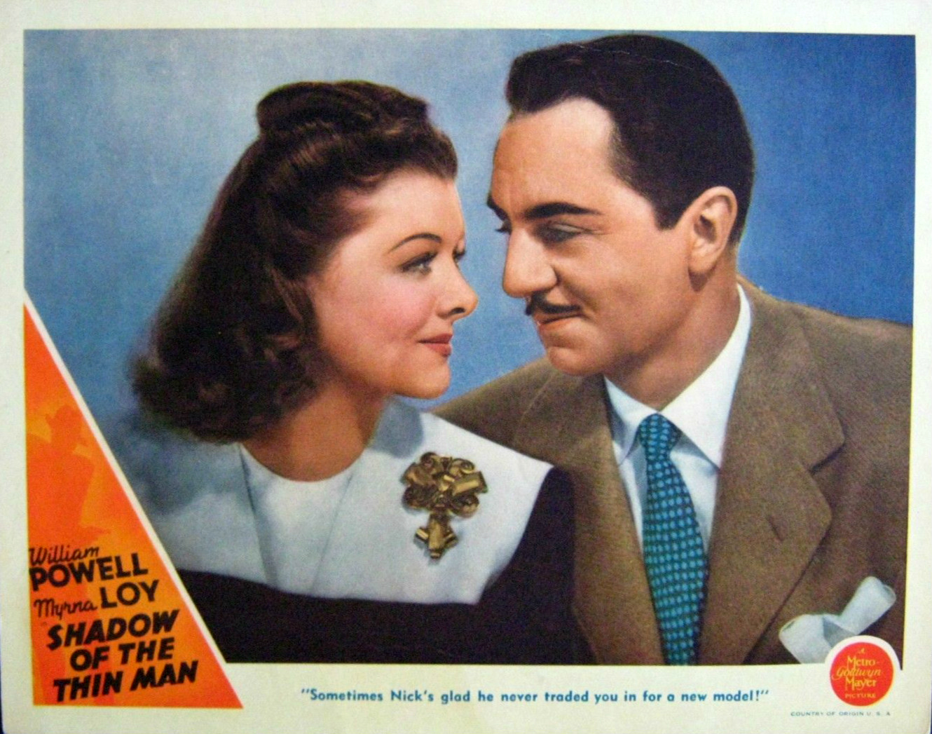 Lobby card for the 1941 film Shadow of the Thin Man. Myrna Loy is wearing a costume designed by costume designer Robert Kalloch.